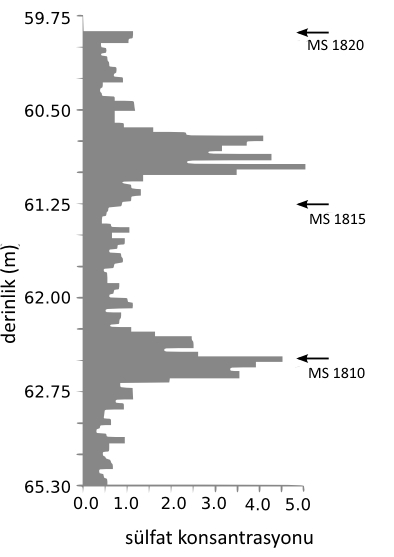 Sulfate concentration in ice core from Central Greenland, accurately dated by counting oxygen isotope seasonal variations. The year 1815 AD was due to the Mt. Tambora eruption, while prior to that is an unknown eruption.